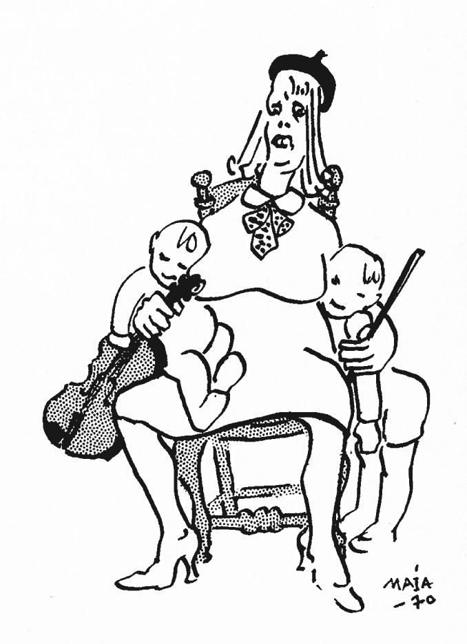 Caricature called "Poor thing, she is talented", made by the Norwegian architect Maja Melandsø, who herself had five daughters and worked as an architect